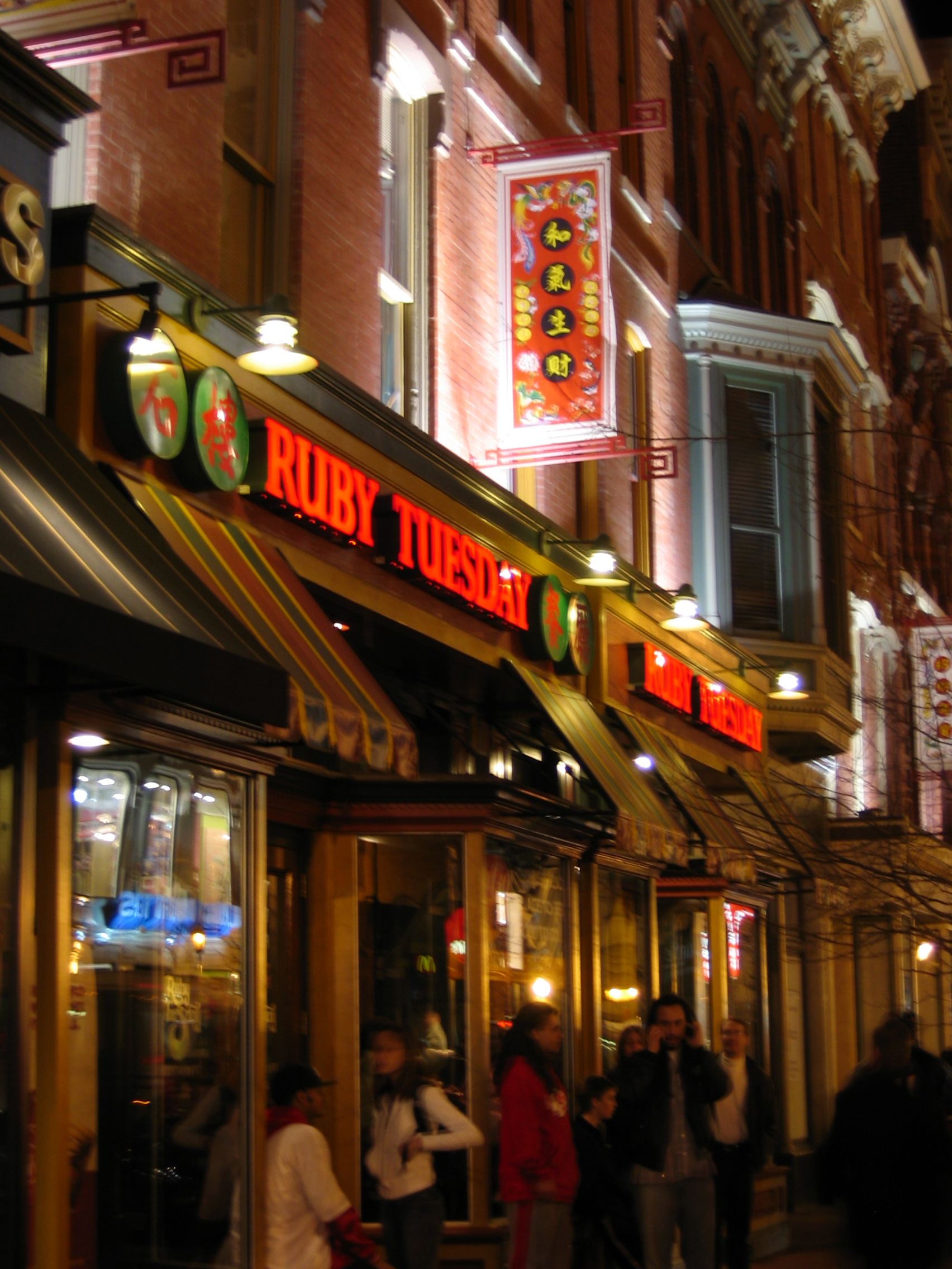 Ruby Tuesday restaurant, in Washington, D.C.'s Chinatown neighborhood, which has rapidly gentrified in recent years with many chain restaurants and stores now located along 7th Street. Photo by Kmf164, taken on January 20, 2006.